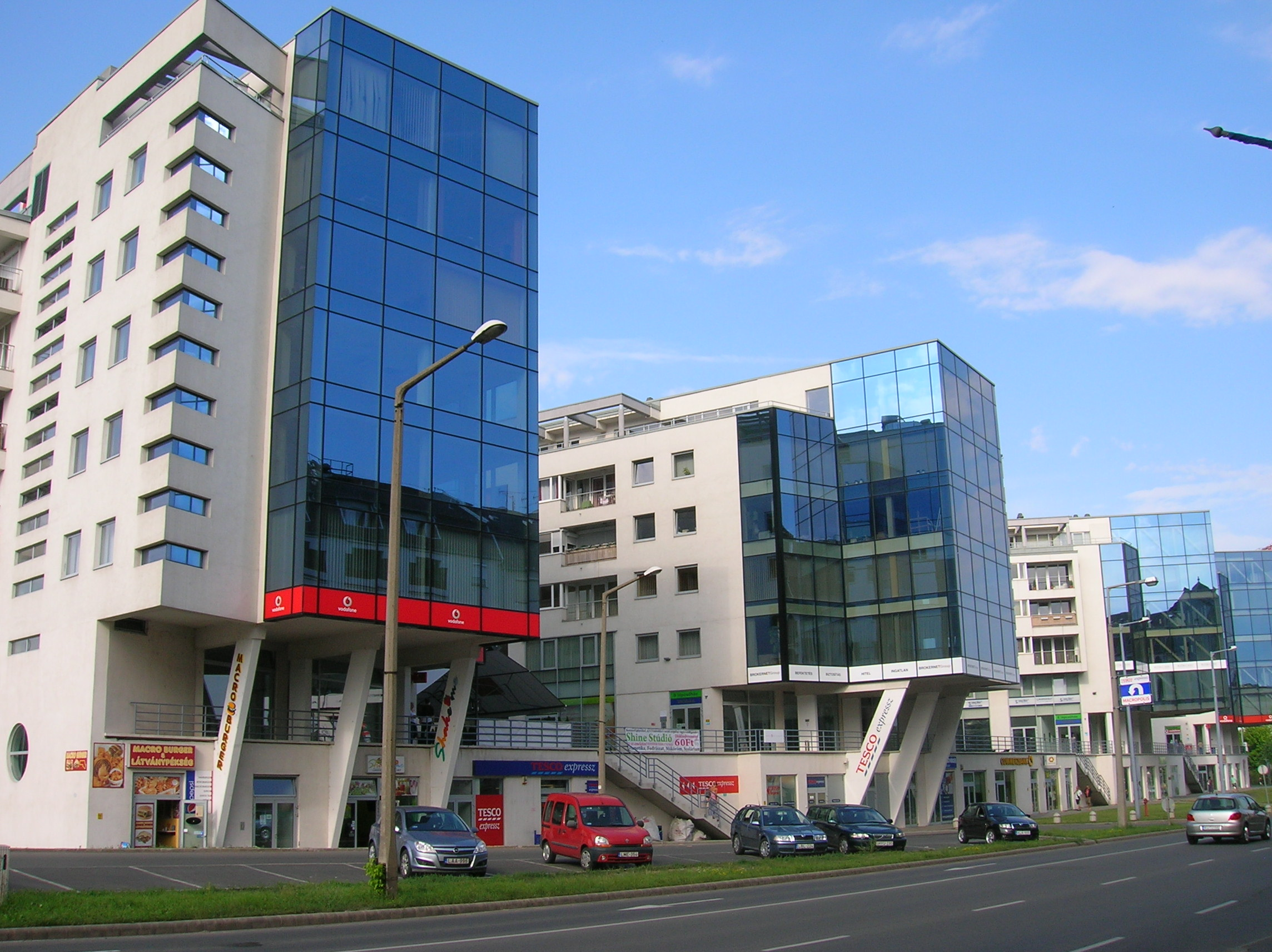 Macropolis complex, Miskolc, Hungary